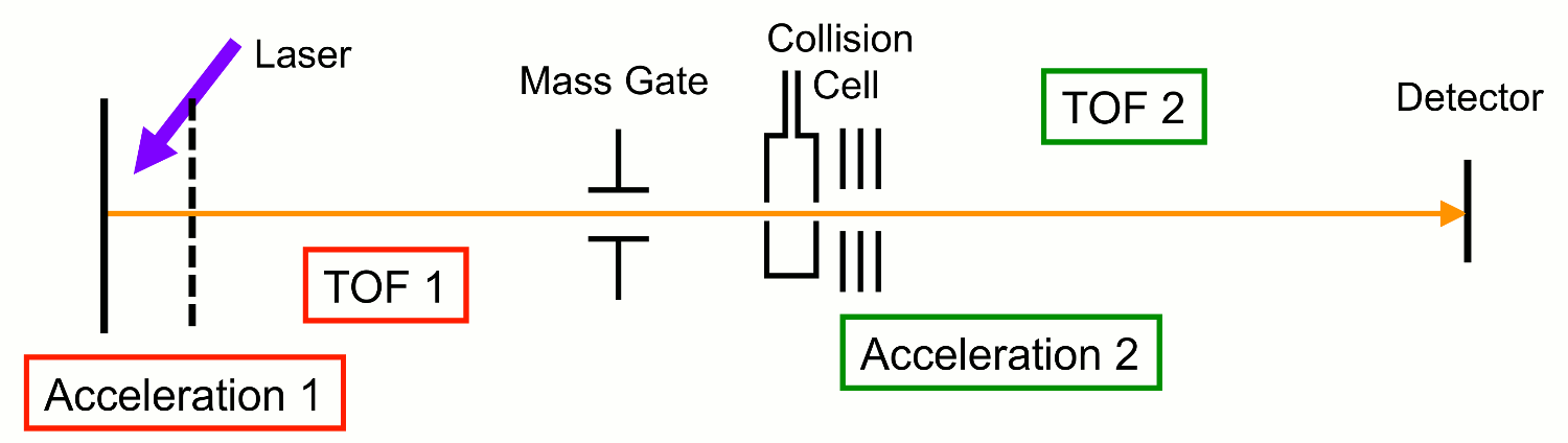 A tandem time-of-flight mass spectrometer (TOF/TOF): ions are formed by pulsed laser ionization and accelerated into the first TOF. A mass gate allows a selected mass range to enter the collision cell to form fragment ions that are accelerated into the second TOF for mass analysis.